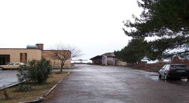 Bajzë Rail Station